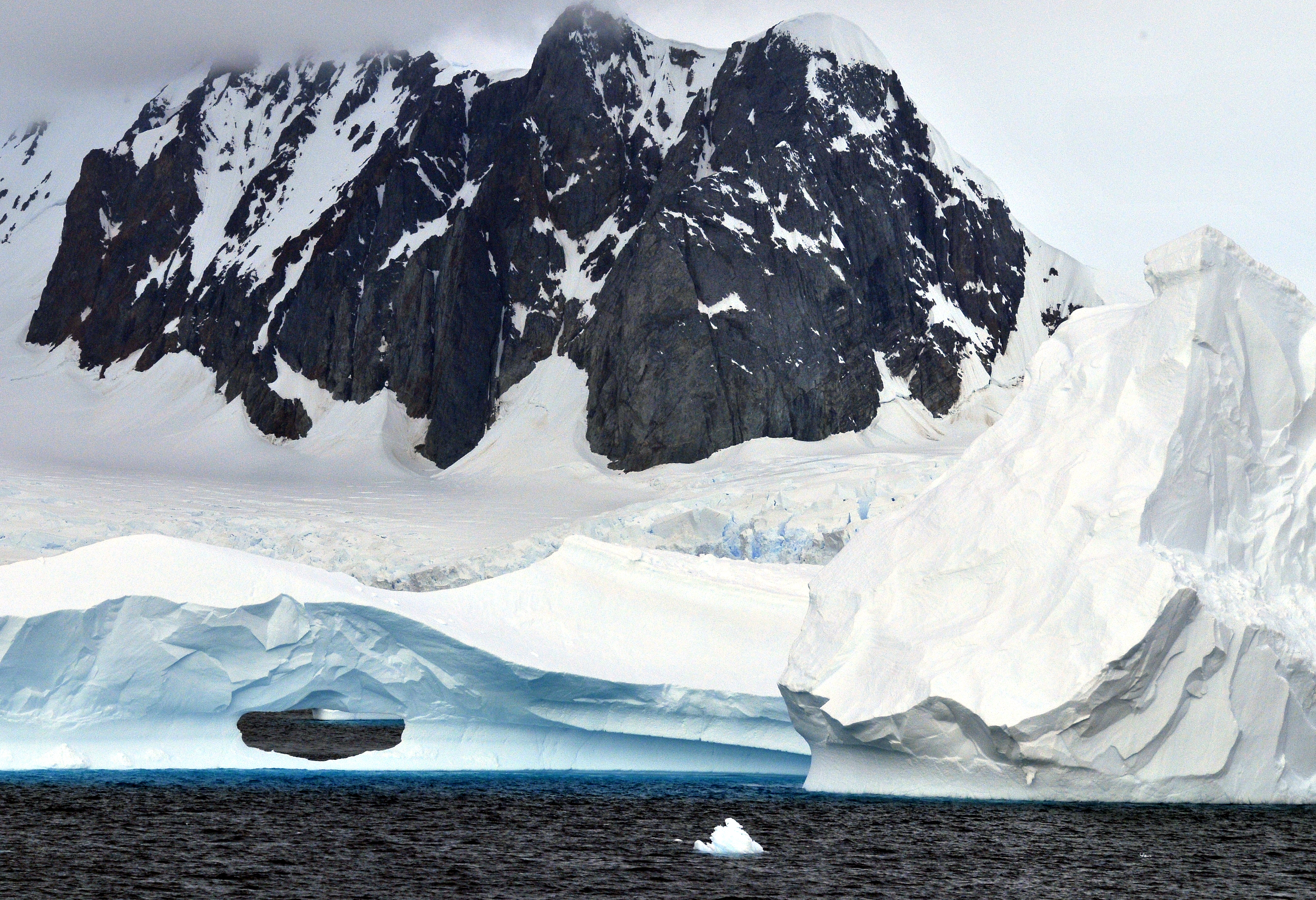 Mountains of the Antarctic Peninsula, in front of Peterman Island